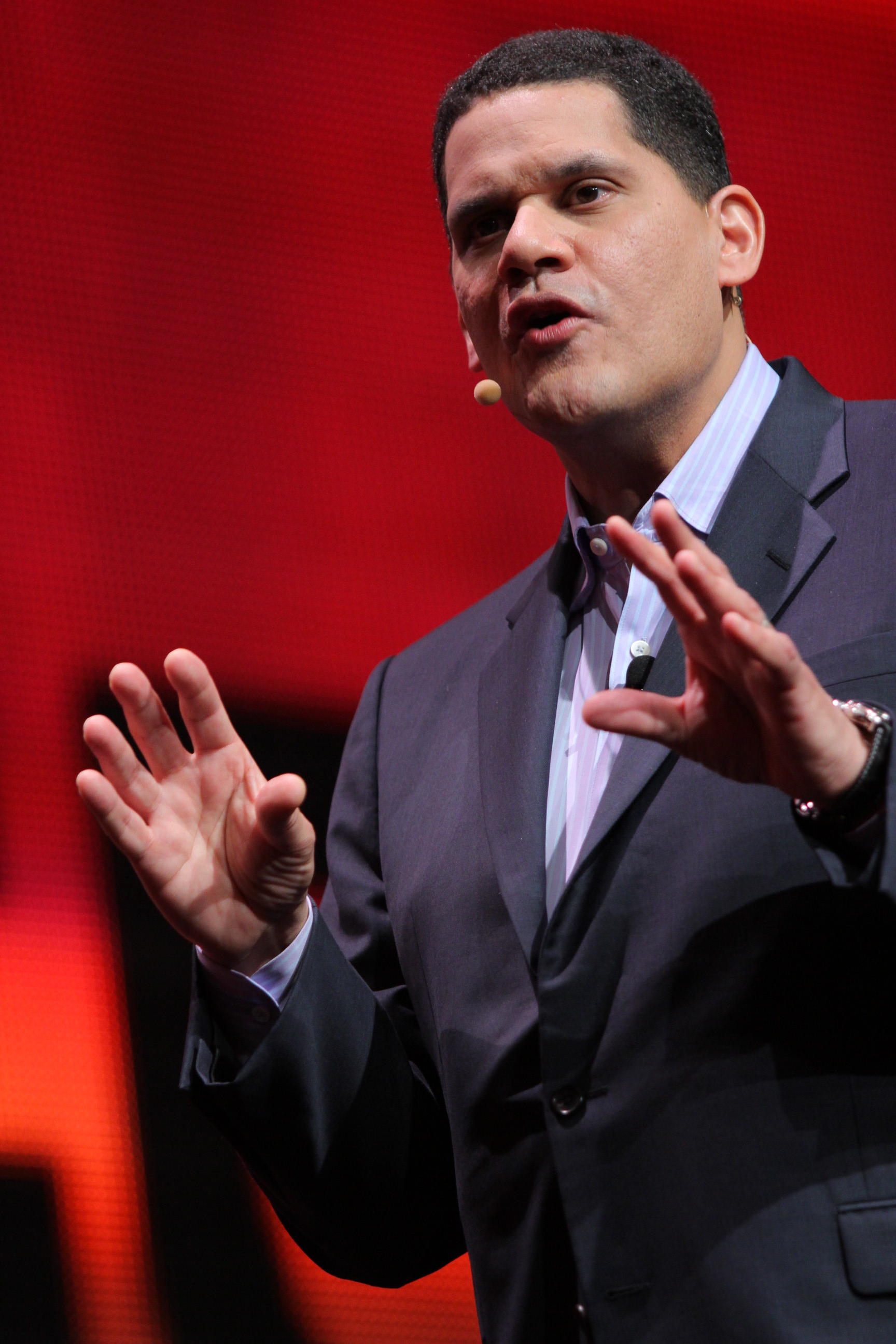 Reggie Fils-Aime at the Game Developers Conference in 2011 (second day), in the Moscone North Hall.